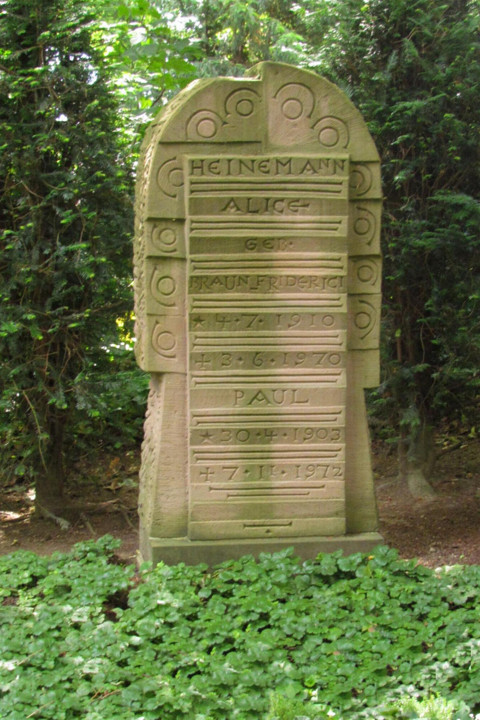 This is a photograph of an architectural monument. 020